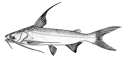 Gafftopsail sea catfish, Bagre marinus (Mitchill, 1815)